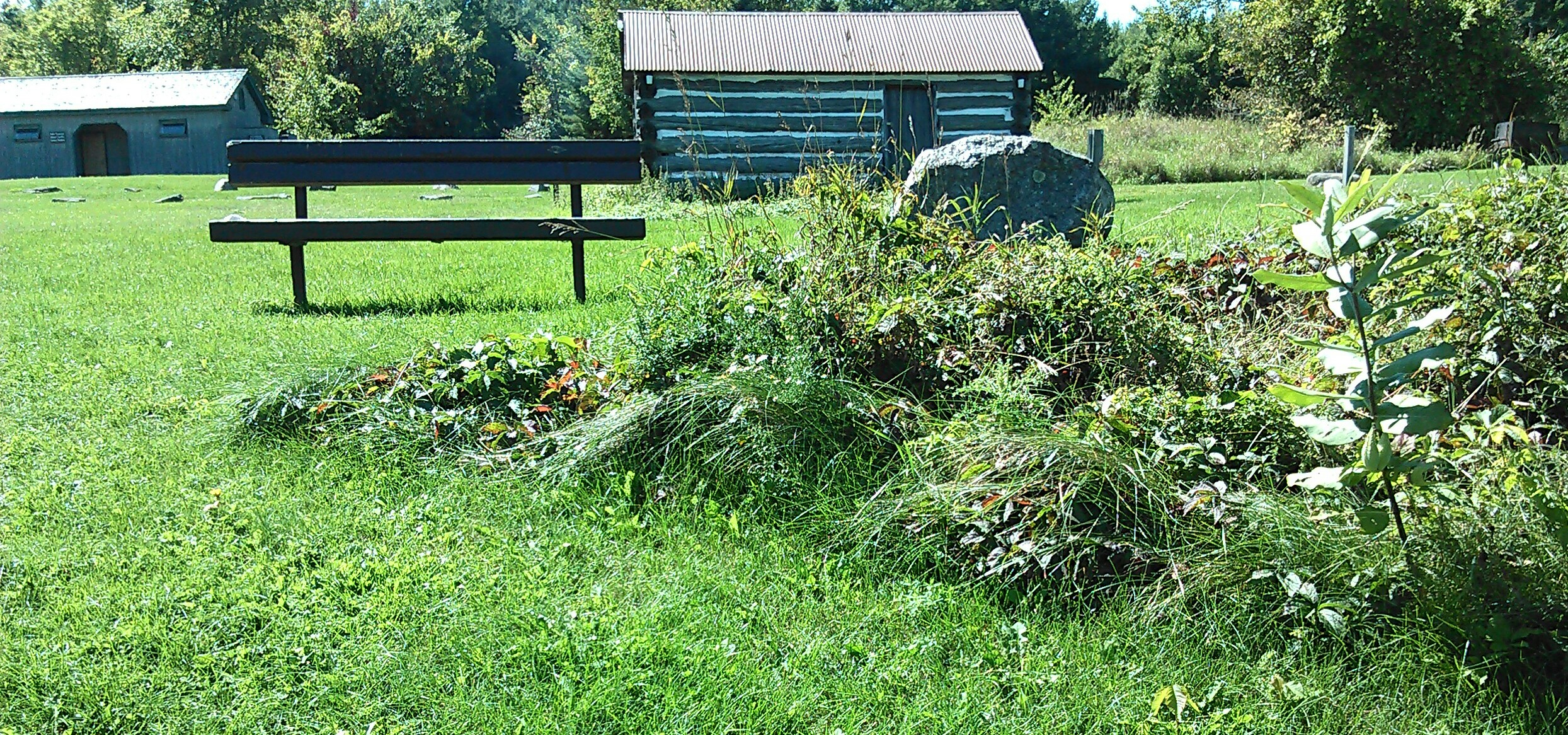 Outbuilding, Pinhey Homestead, erected c. 1825, March Township, Carleton County, Ontario. June 8, 1925. Now in the Kanata community of Ottawa, Ontario, Canada